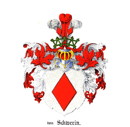 Original coat of arms of the von Schwerin family